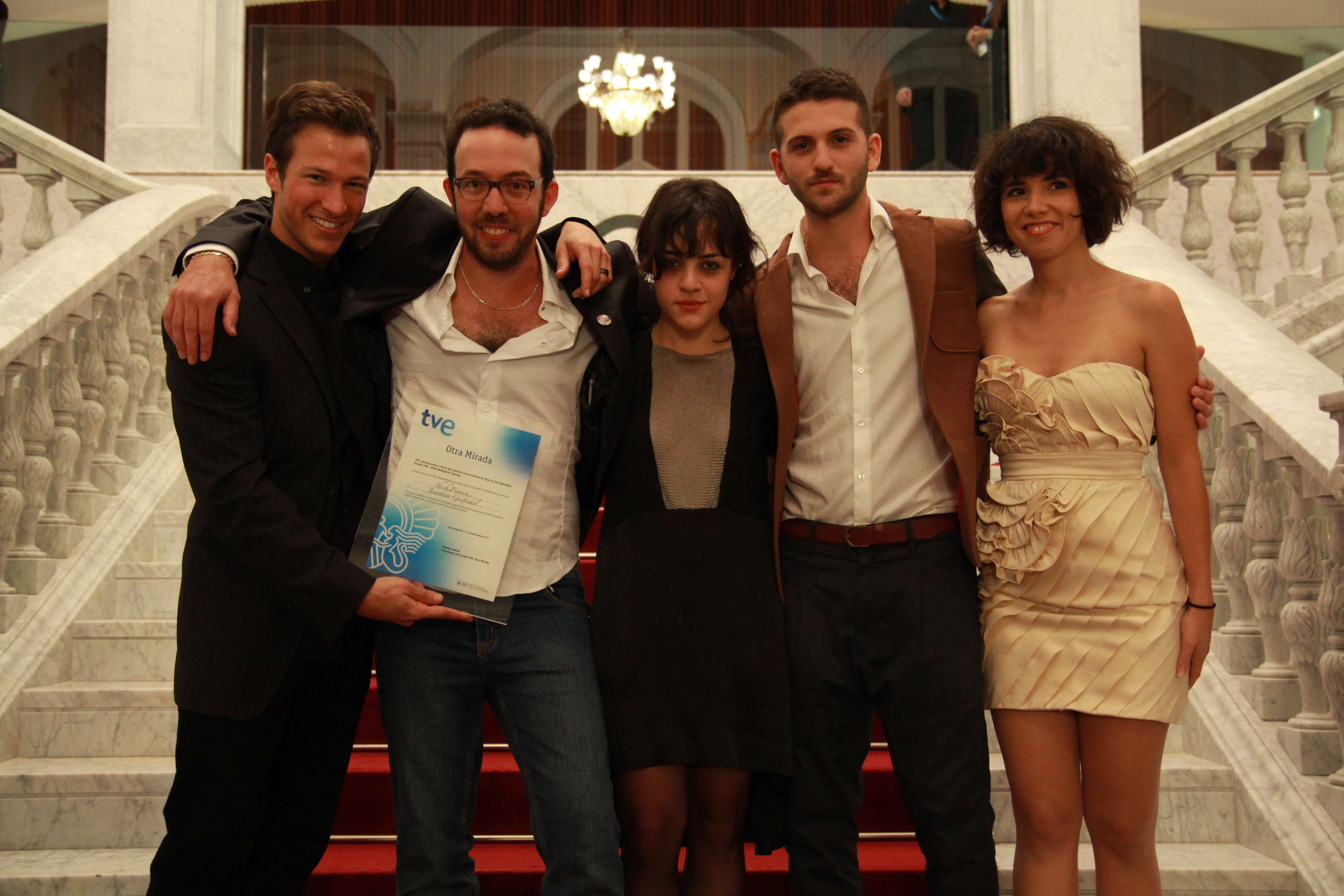 Picture from San Sebastian Film Festival. This is the casting of the 6 acts production. The shoot was taken by Ziz Mamon. From the left: Eviatar Mor, Jonathan Gurfinkel, Sivan Levy, Roy Nik and Rona Segal.